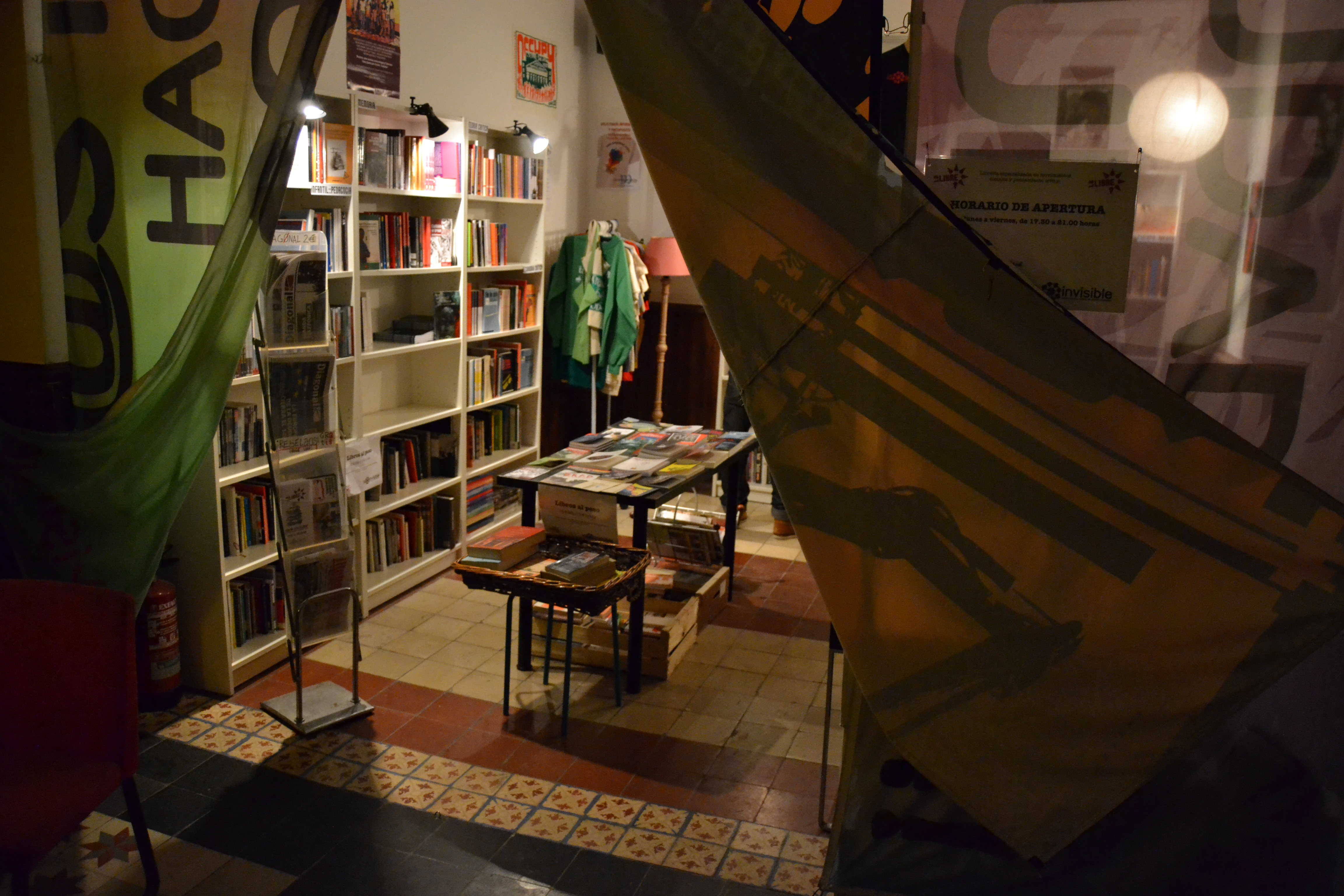 Bookshop in La Casa Invisible